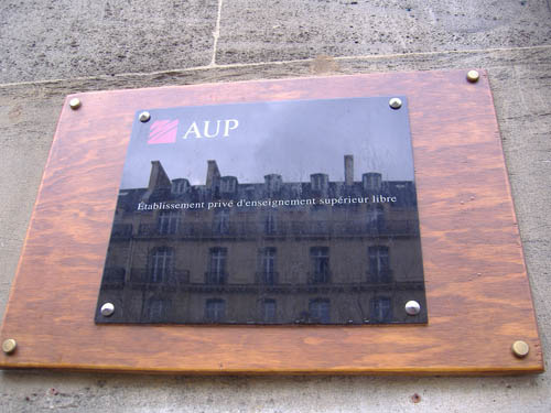 From Flickr. CC attribution only. [1] Photo by Maria Noland